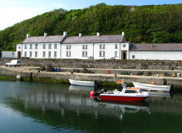 Manor House, Rathlin Island [1] Overlooking the harbour, the Manor House dates from 1756. Described as a "late Georgian gentleman's house" it officially reopened as a guest house and restaurant on 28th June 1994 before being acquired by the National Trust in 1998.